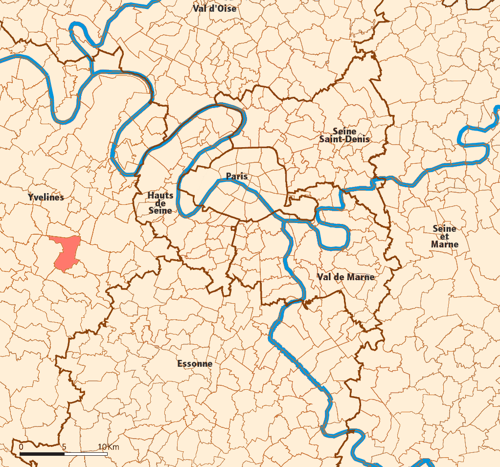 Created map myself.